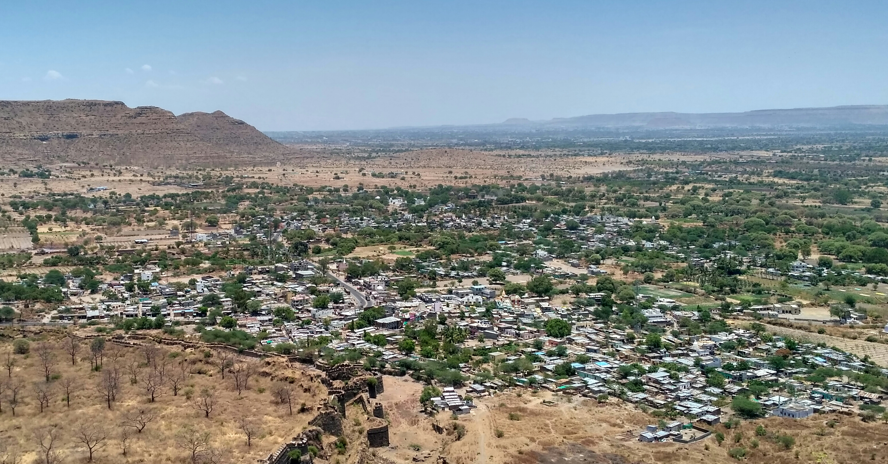 beautiful view of Daulatabad city